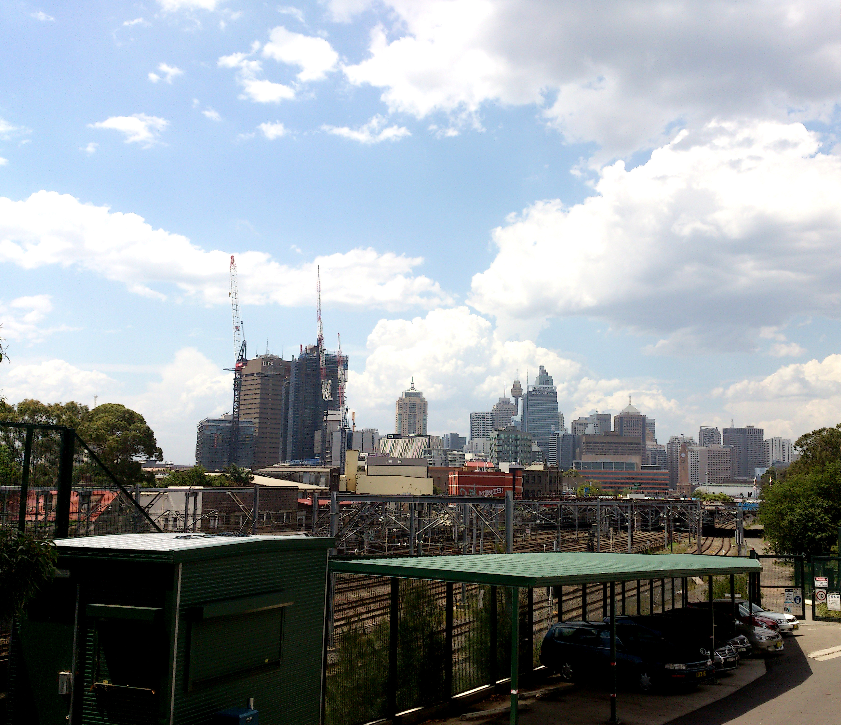 Redfern Bridge